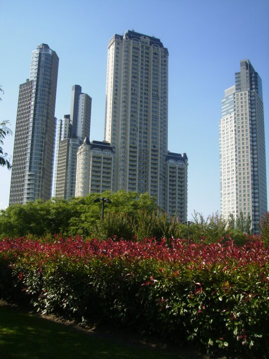 Puerto Madero, Buenos Aires